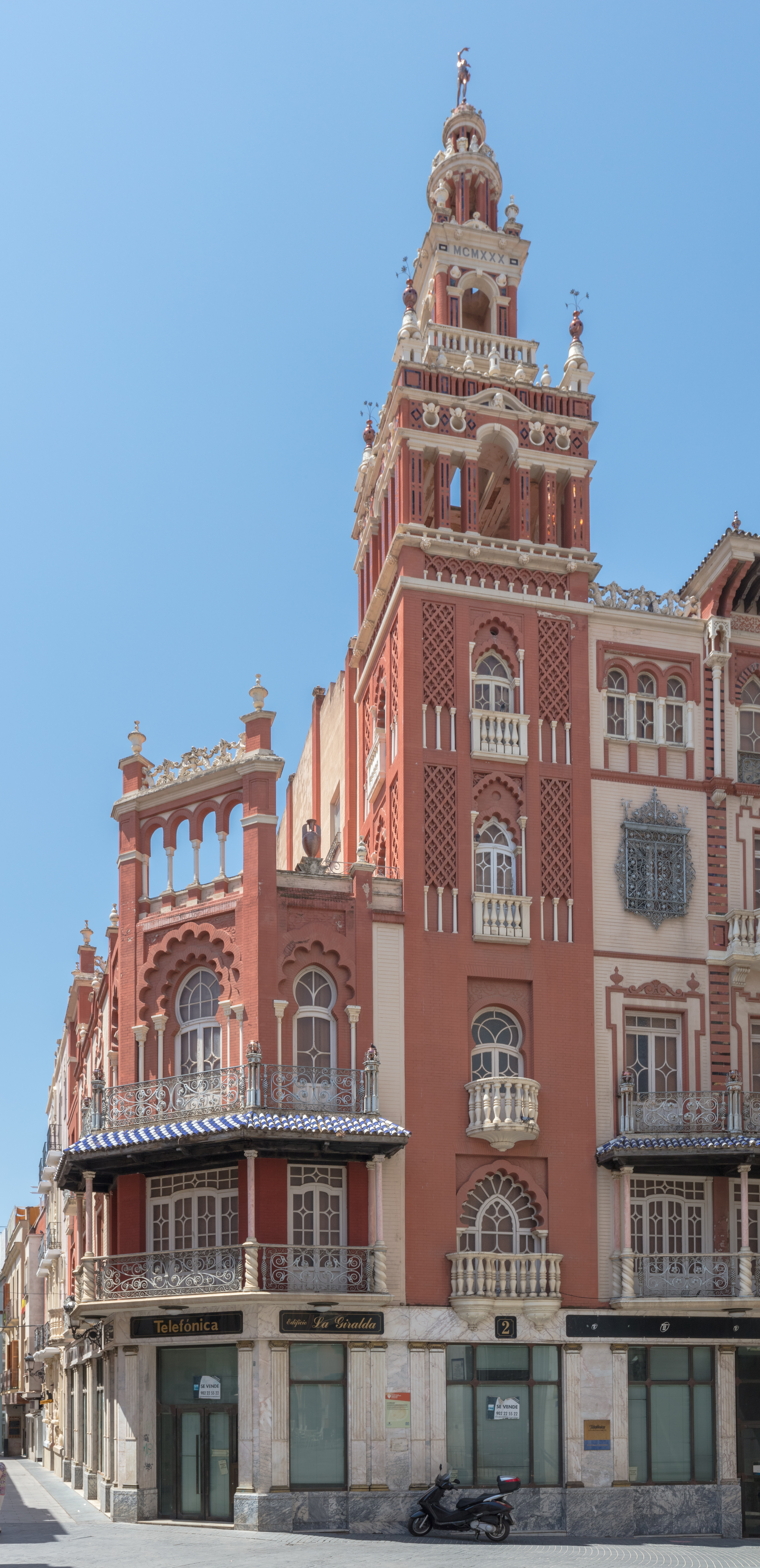 Giralda of Badajoz, Badajoz, Spain